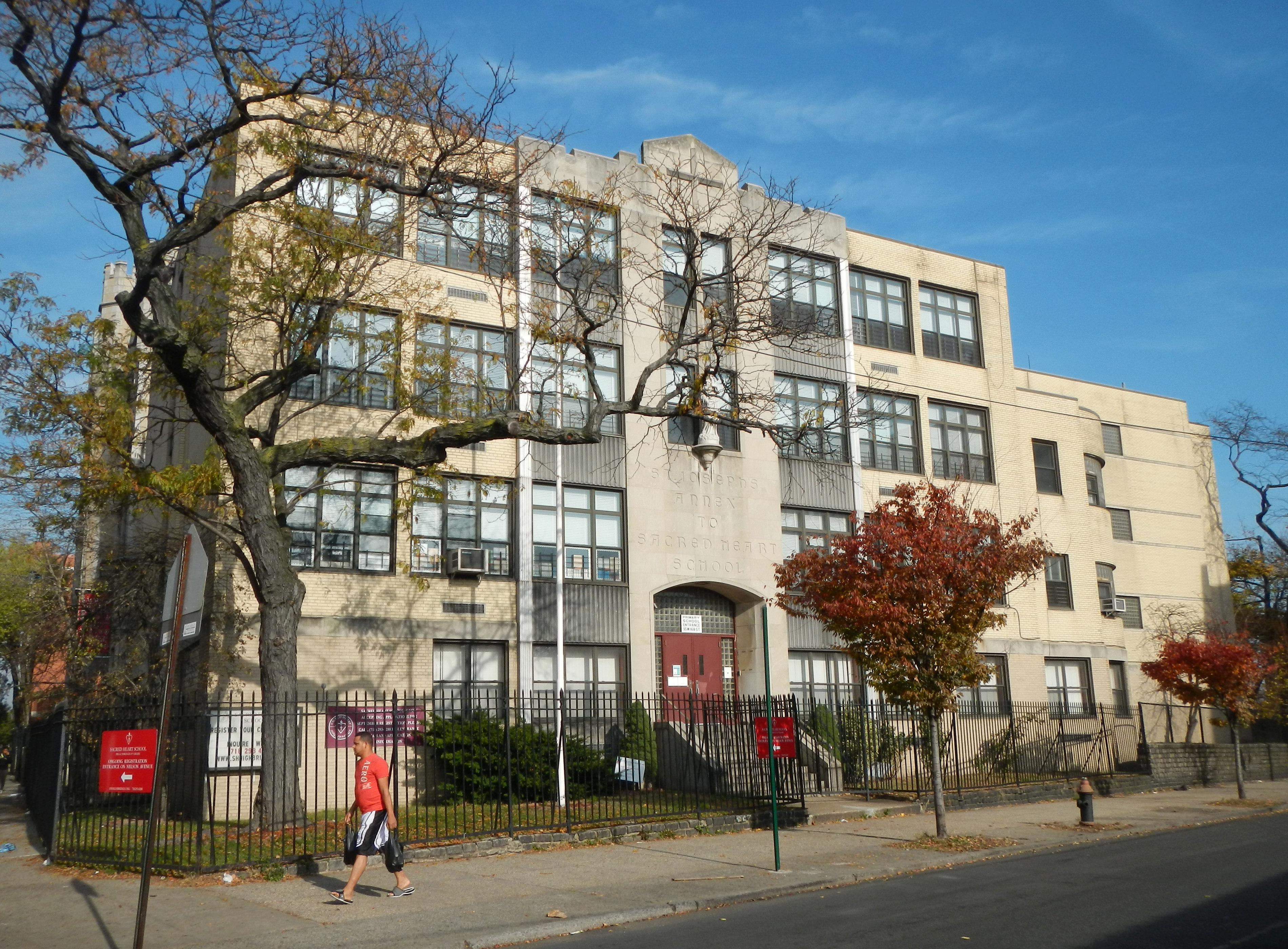 Looking northeast at school on a sunny early afternoon.